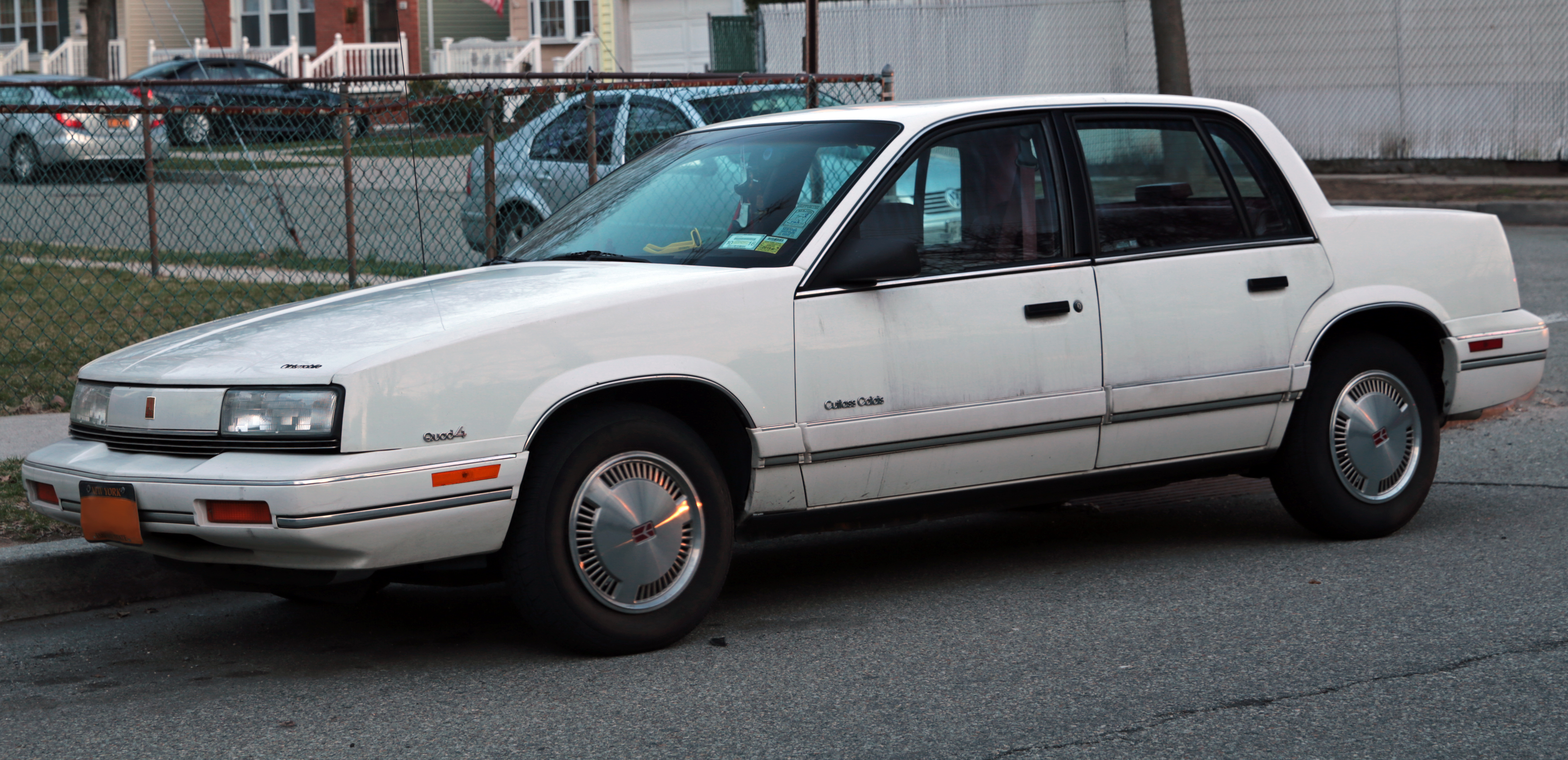 A 1991 Oldsmobile Cutlass Calais four-door sedan (base model) with the LD2 Quad 4 engine, 160hp.